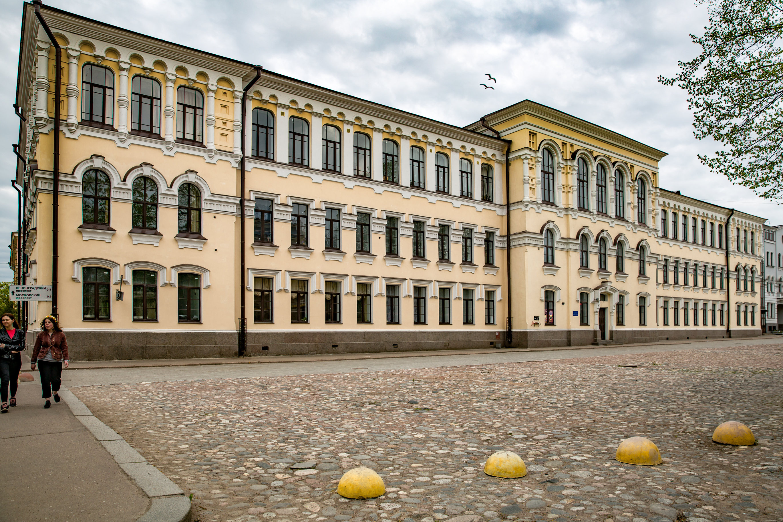 Finnish lyceum